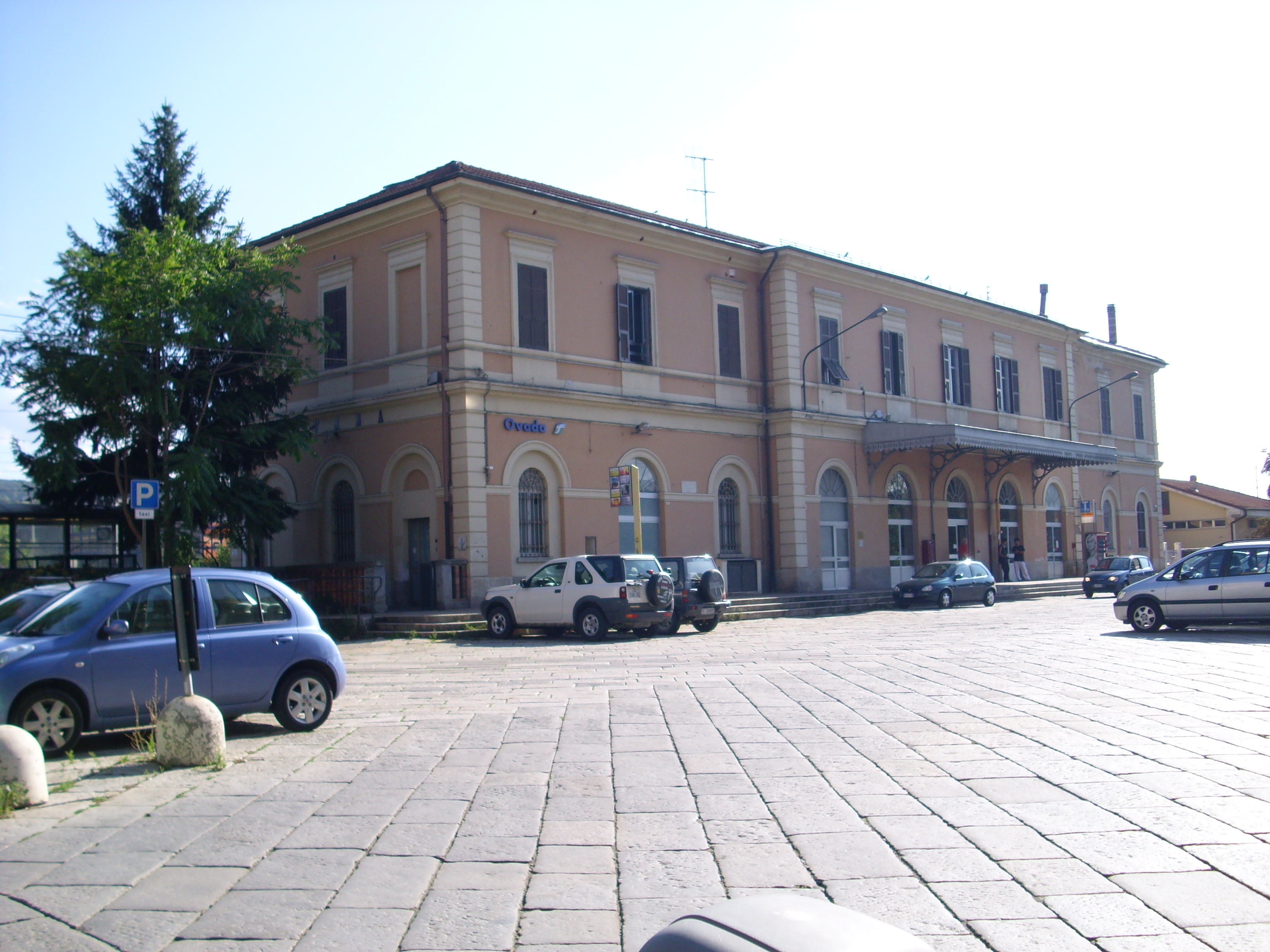 Ovada train station